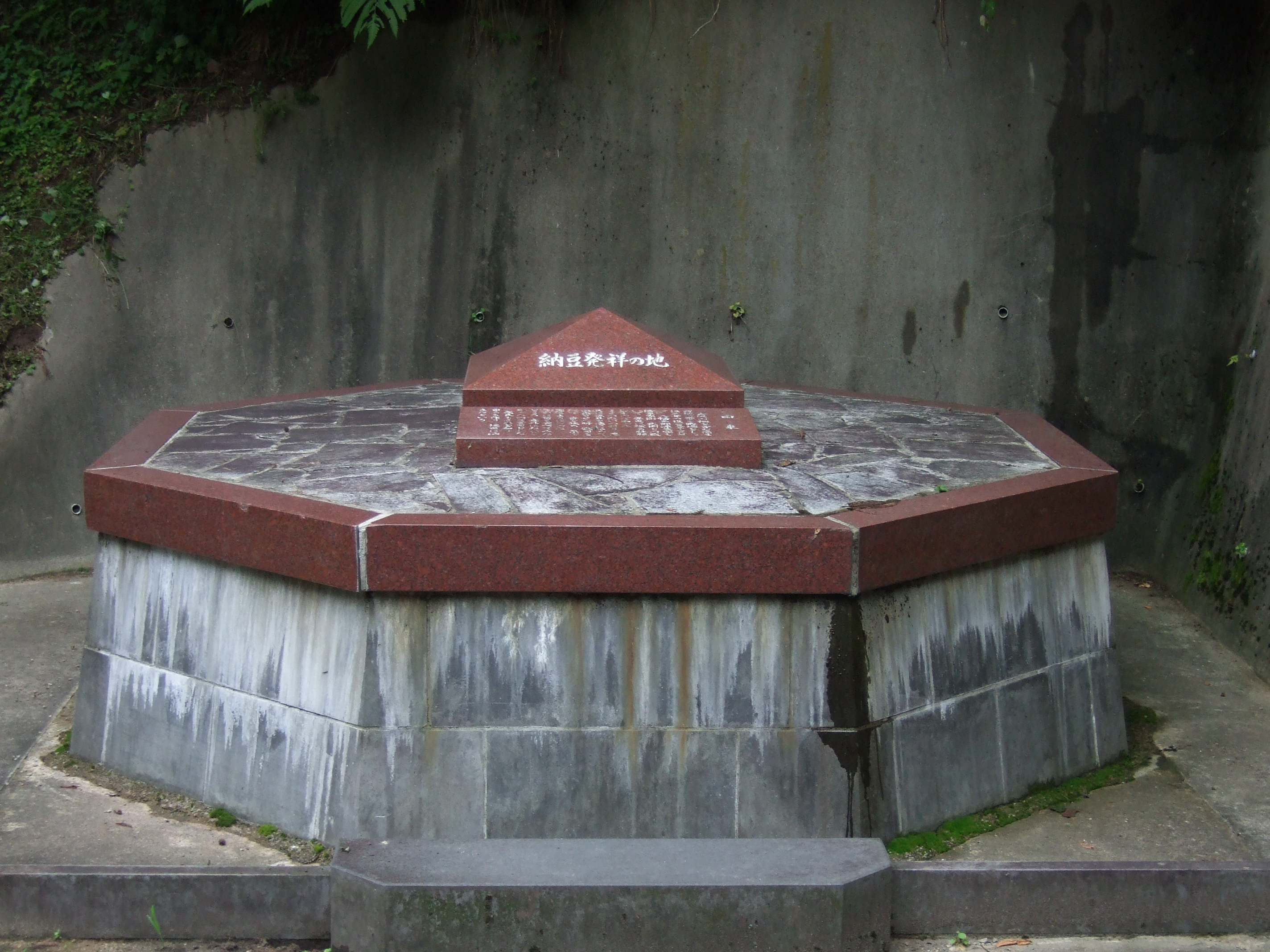 the monument of the cradle of Nattō, at Kanezawa-kouen, Yokote, Akita, Japan.